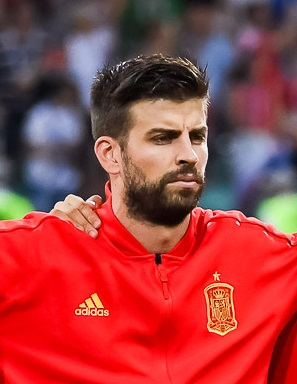 Gerard Piqué with Spain against Portugal in the 2018 FIFA World Cup